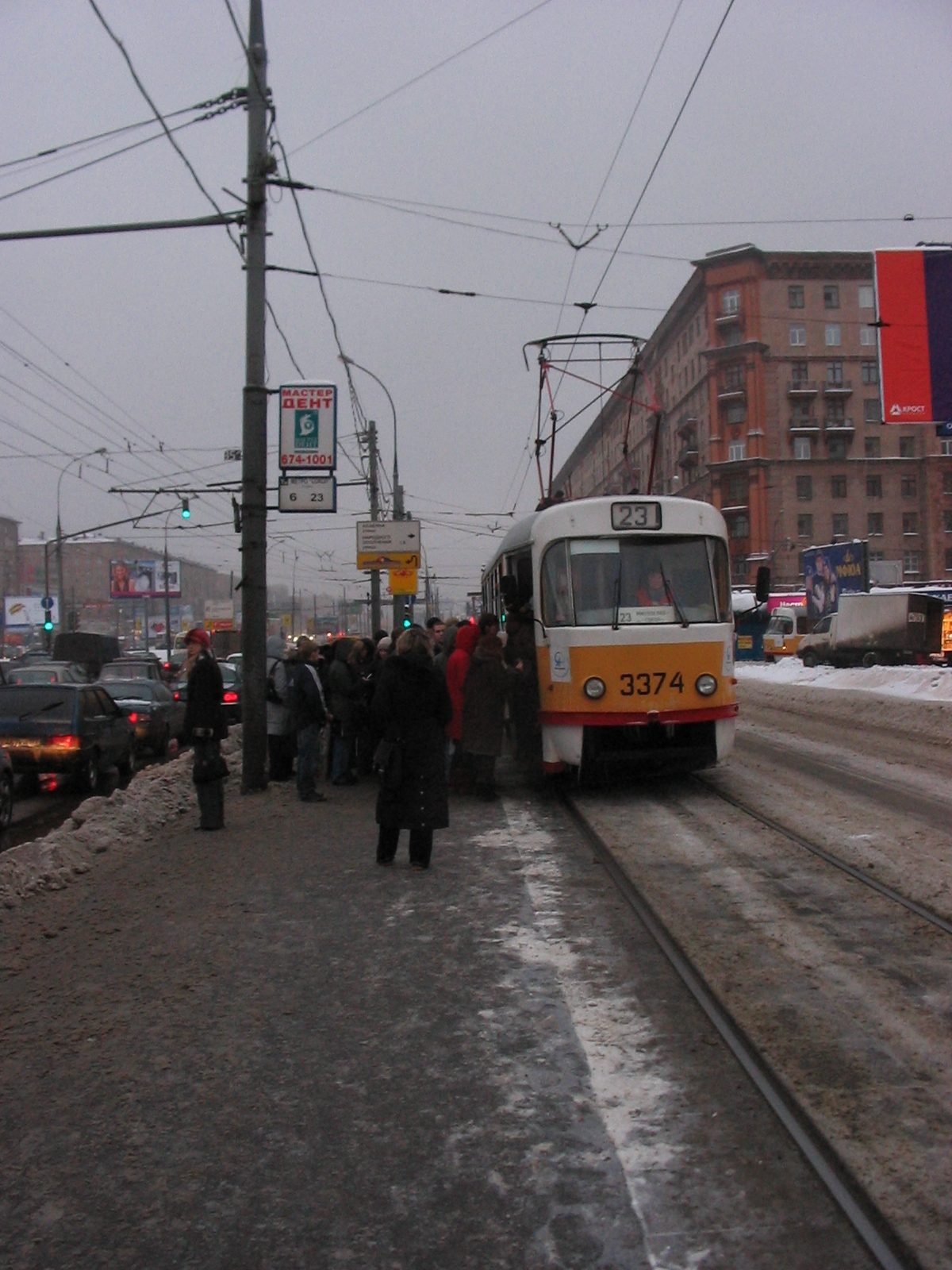 Tram on route #23 at Alabyana Street